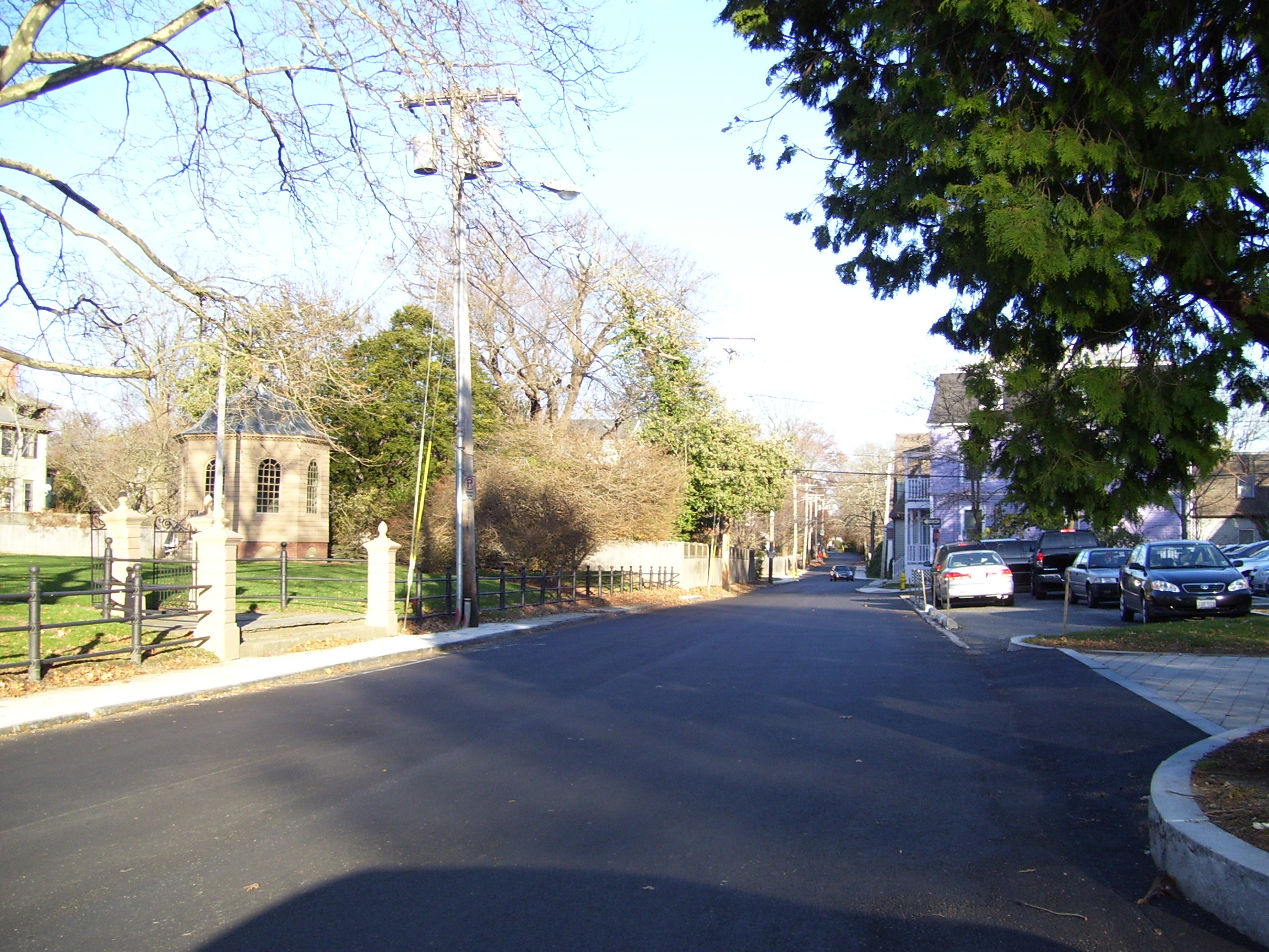 This is my 2008 photo of Old Beach Road in Newport, Rhode Island.